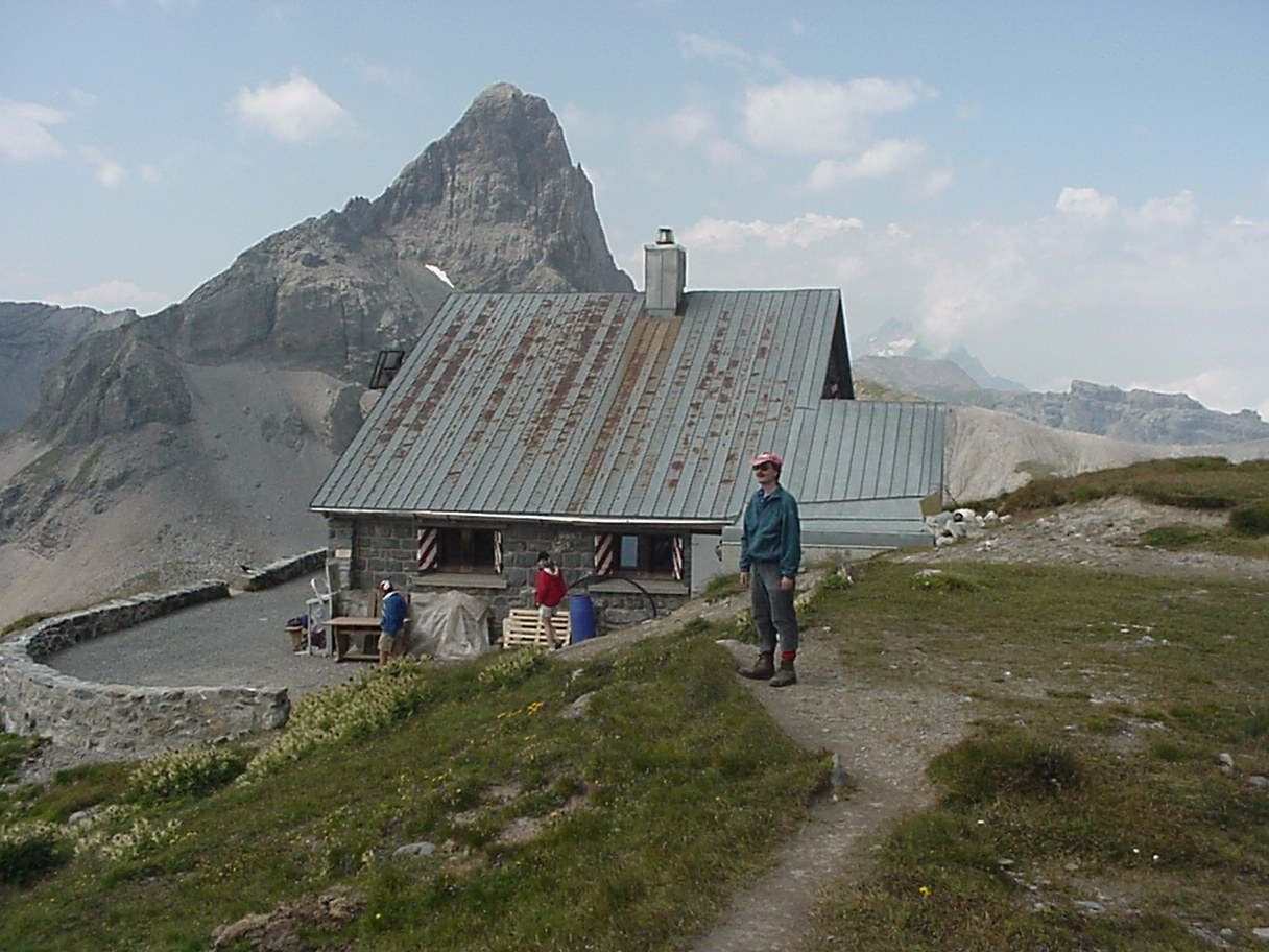 Cabane Rambert, Petit Muveran in the background